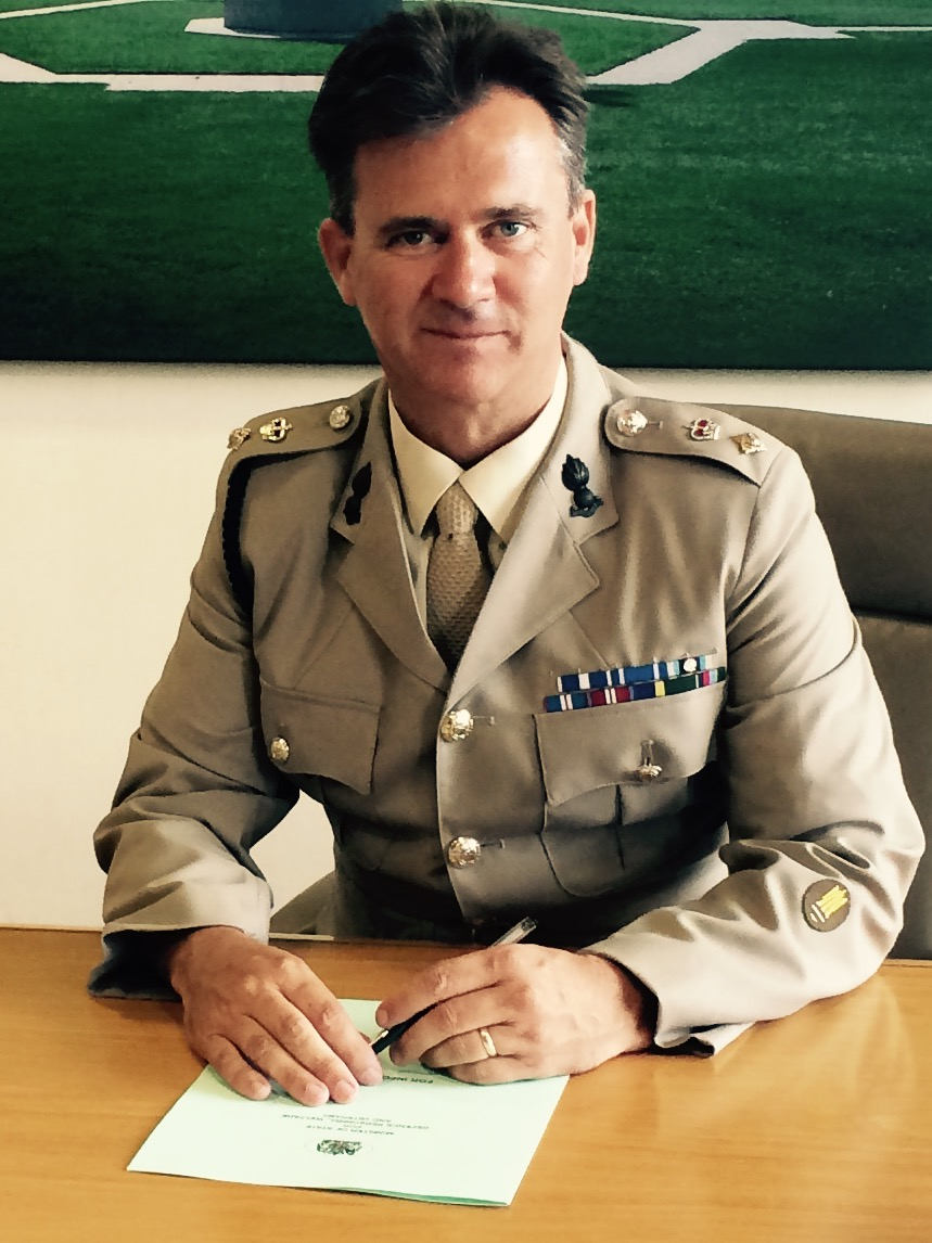 Mark Lancaster